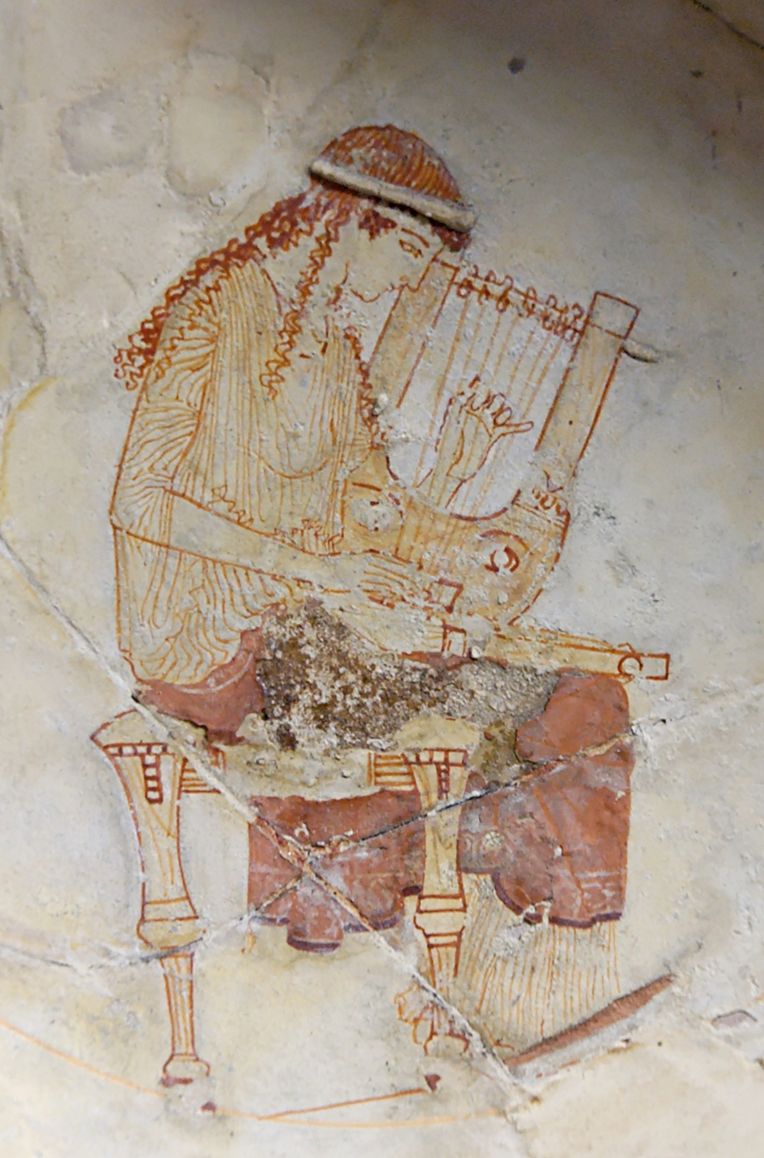 Muse tuning two kitharai. Detail of the interior from an Attic white-ground cup, ca. 470–460 BC. From Eretria.